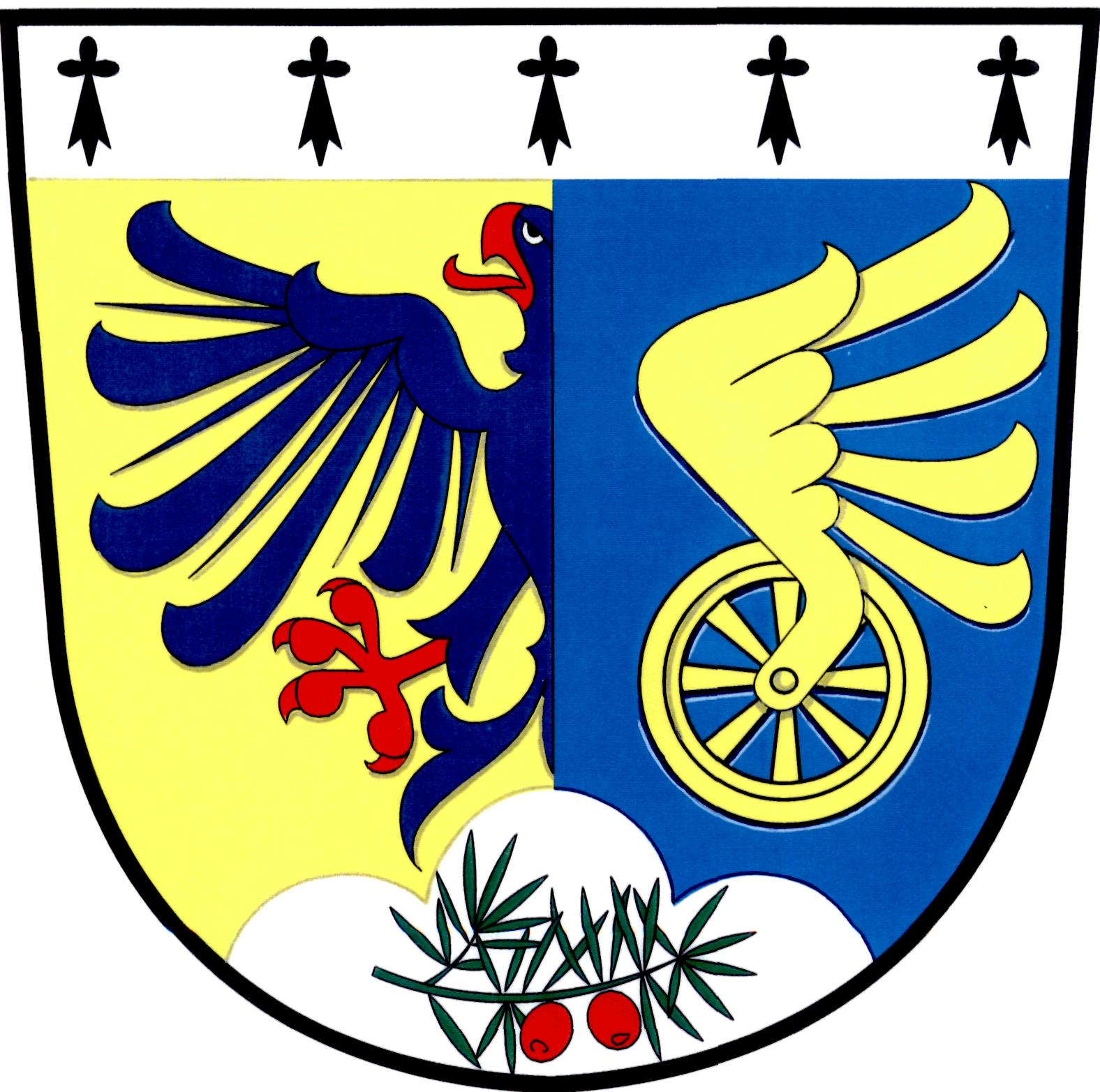 Municipal coat of arms of Bratčice village, Kutná Hora District, Czech Republic.